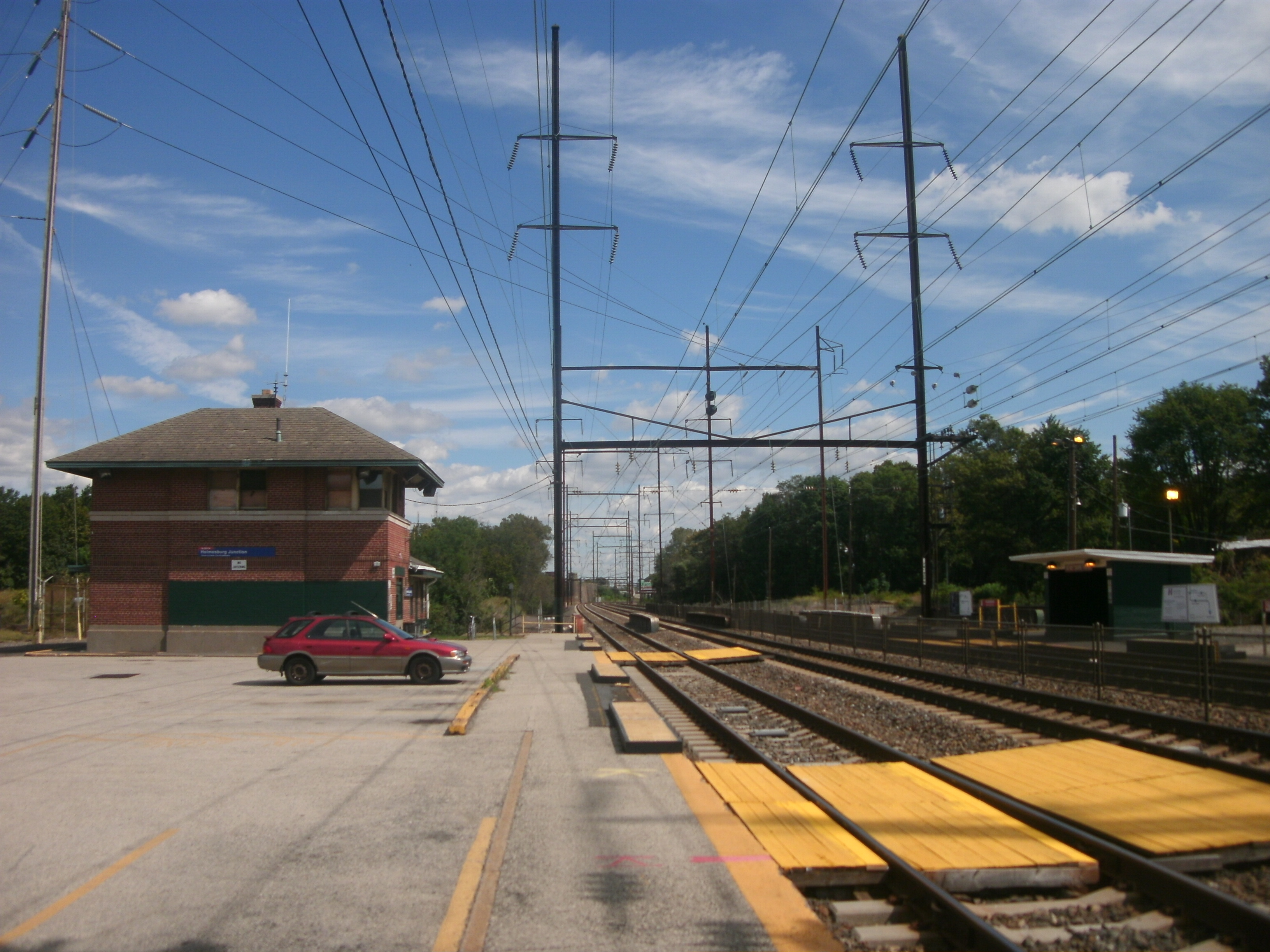 The Holmesburg Junction SEPTA station in the northern reaches of Philadelphia, Pennsylvania.